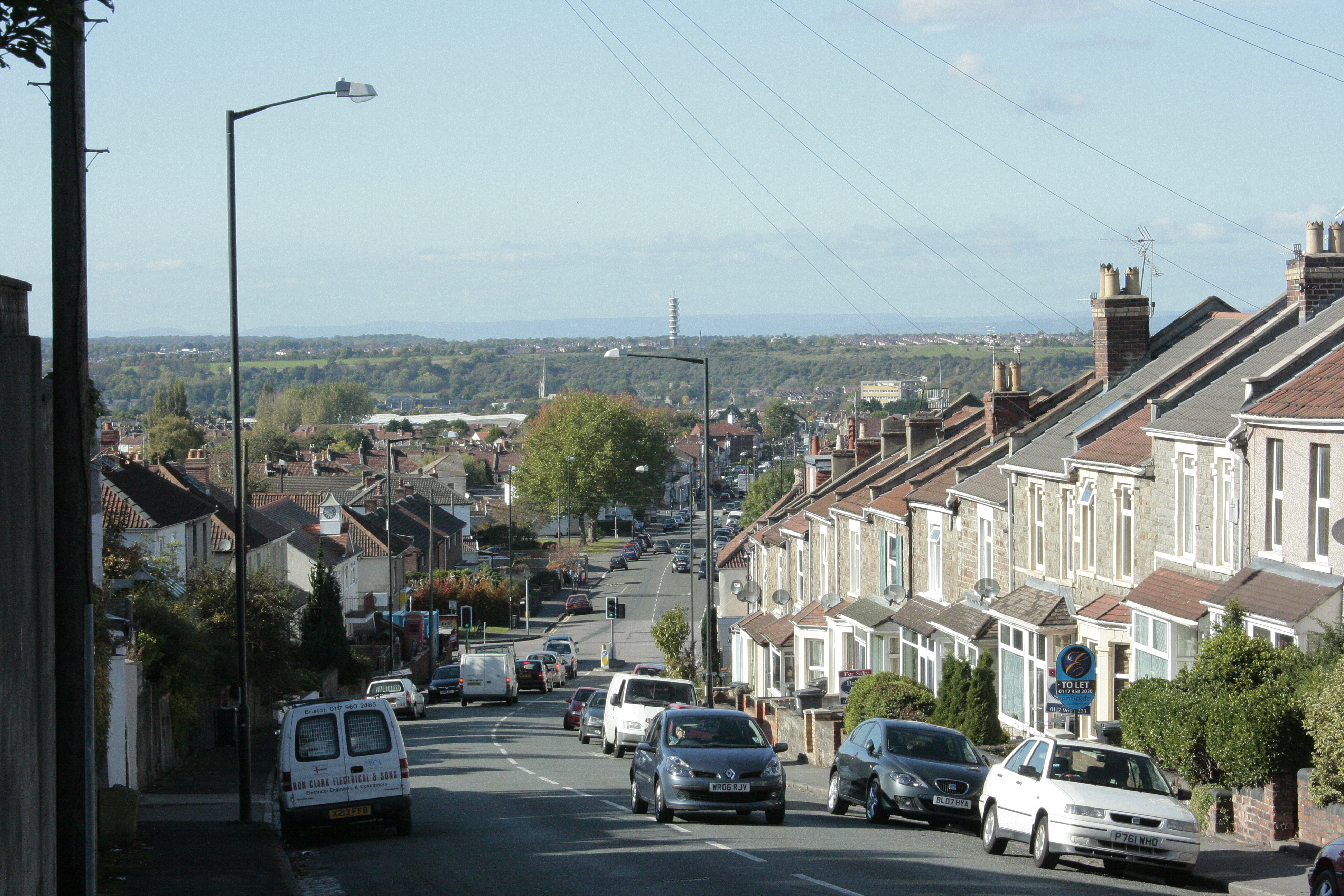 B4048 Lodge Hill, Chester Park, Bristol Seen from near the top of the hill with Lodge Causeway at the bottom running to Fishponds. The stone built houses on the right pre-date the housing estate, mistly brick, which was built in the 1920/30's. The most obvious item further over is the Post Office Tower standing on Pur Down ST6176 The distant hills, faint on the horizon, are on the other side of the Bristol Channel. "Lodge Causeway is an ancient passage through the former Royal Forest of Kingswood and now the main road between Fishponds and Kingswood in Bristol, England. The Causeway led to Kingswood Lodge at the top of Lodge Hill, recorded in use since Saxon times when kings used the forest for hunting whilst resident at the palace at Pucklechurch, where King Edmund was murdered by an outlaw in 946. It passes through the Fishponds suburbs of Hillfields, Mayfield Park and Chester Park." The above was copied from